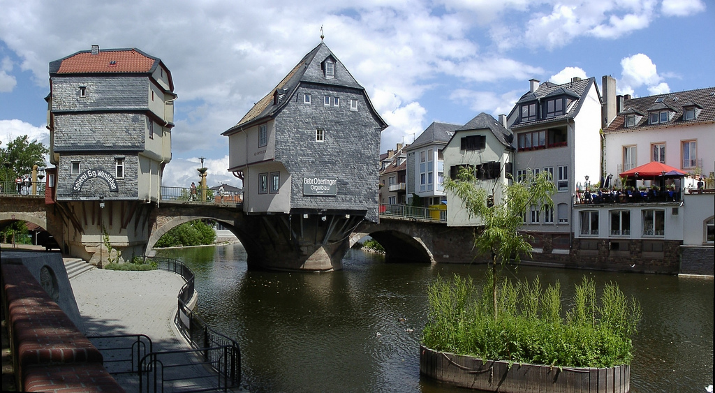 The Old Nahe Bridge in Bad Kreuznach, Rhineland-Palatinate, Germany